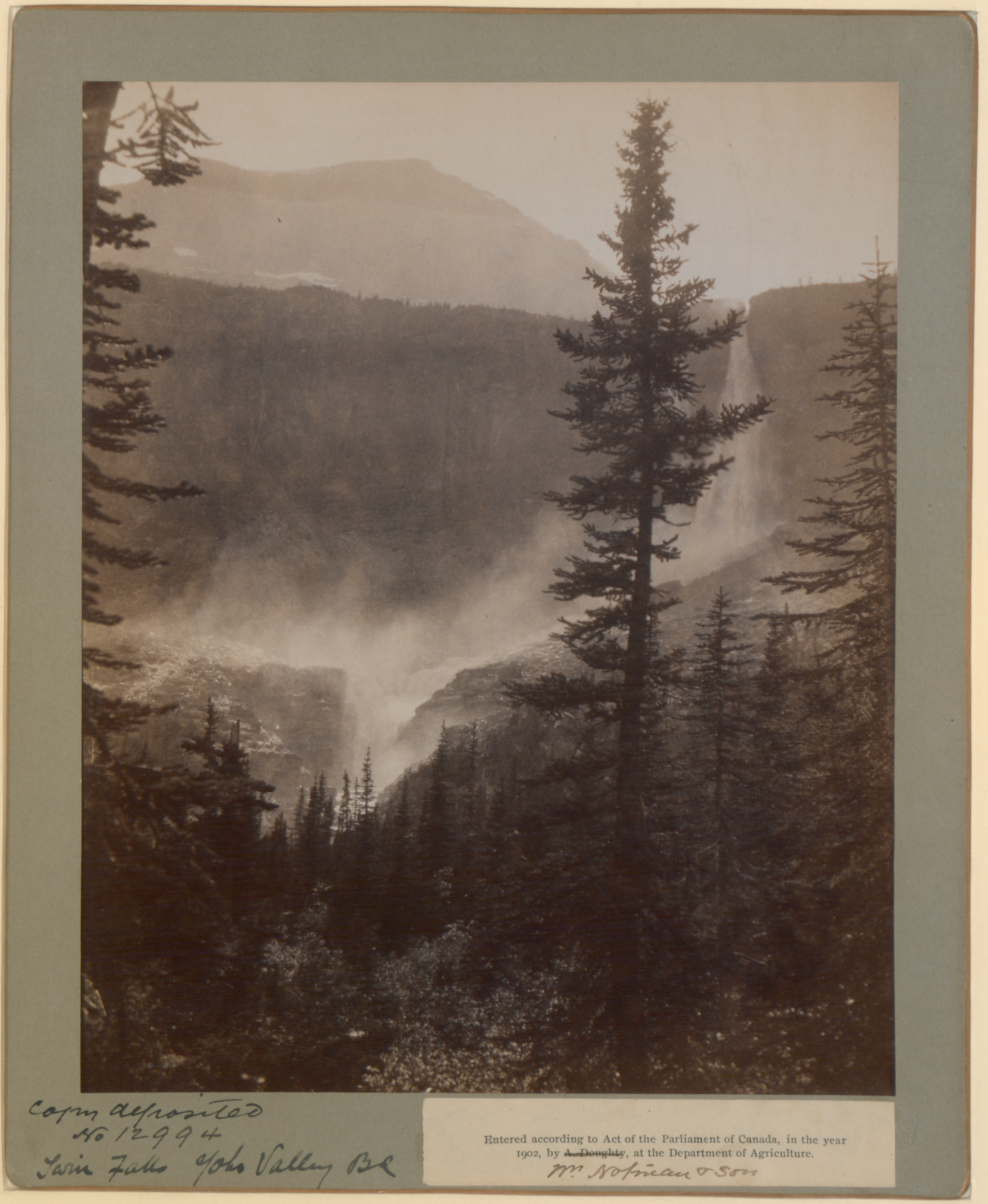 Twin Falls, Yoko Valley, British Columbia.